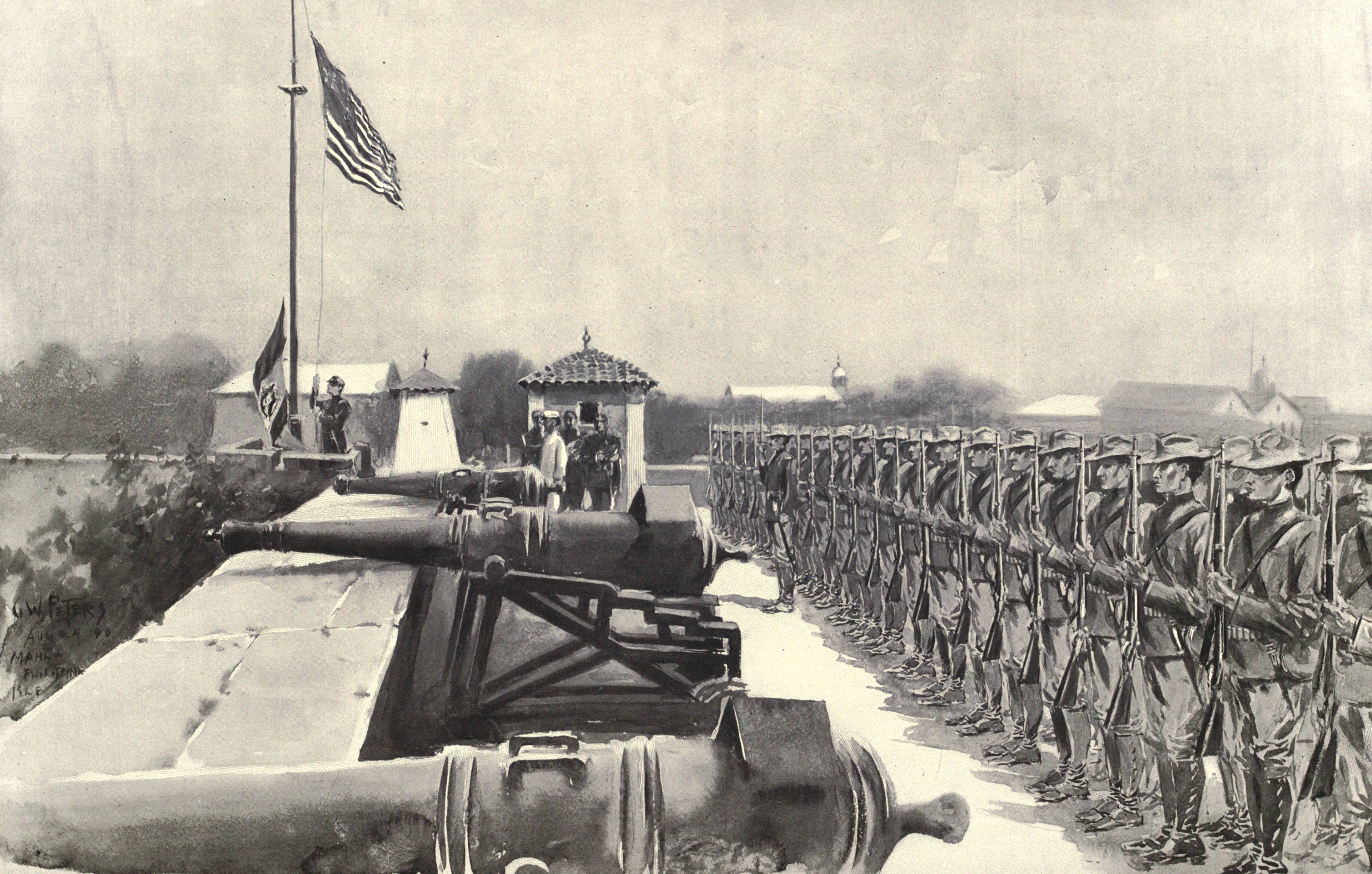 Original caption (cropped out): Raising the American flag over Fort Santiago, Manila, on the evening of August 13, 1898. From Harper's Pictorial History of the War with Spain, Vol. II, published by Harper and Brothers in 1899.